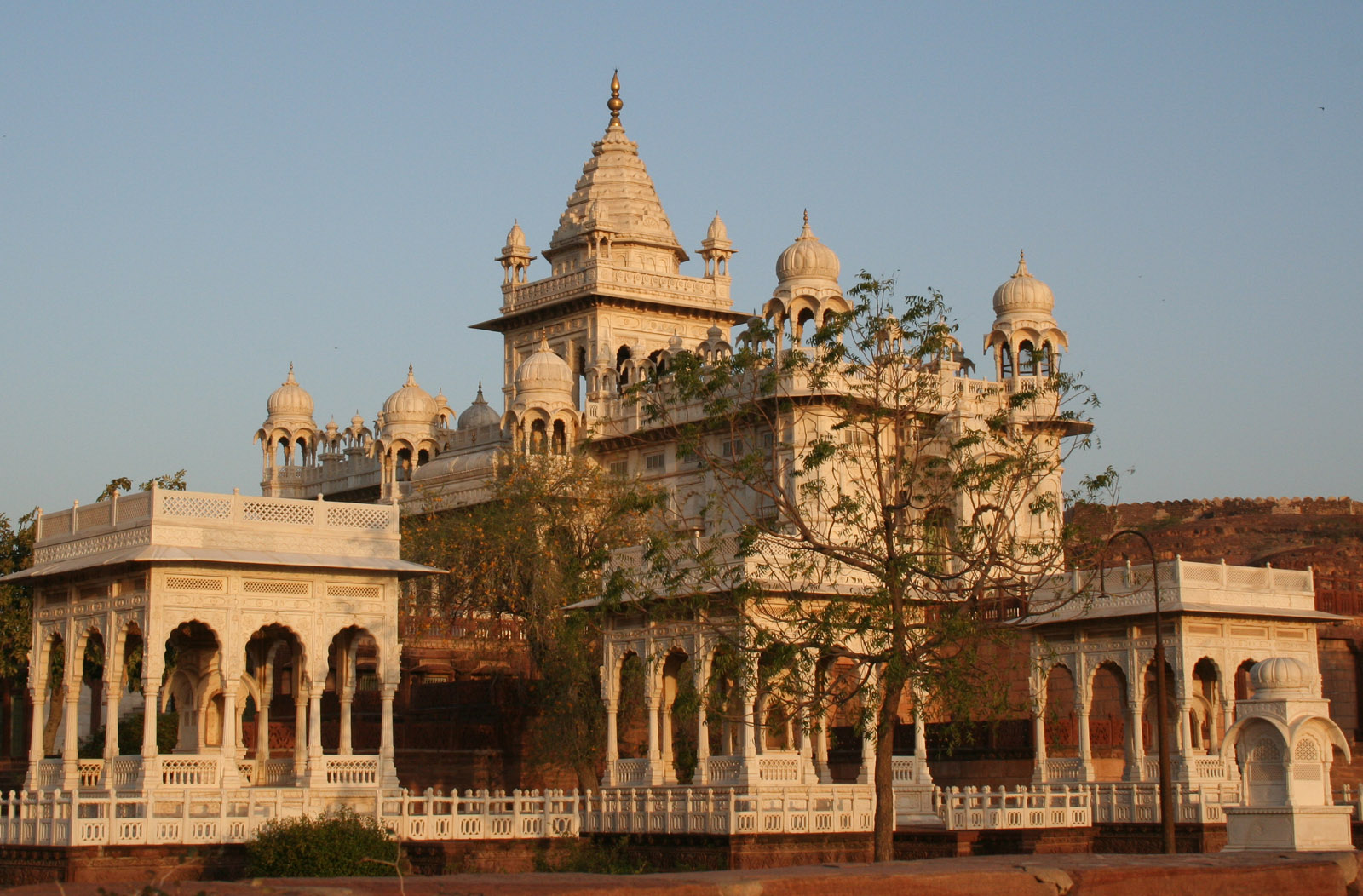 The Jaswant Thada mausoleum in Jodhpur, Rajasthan, India in the early morning.